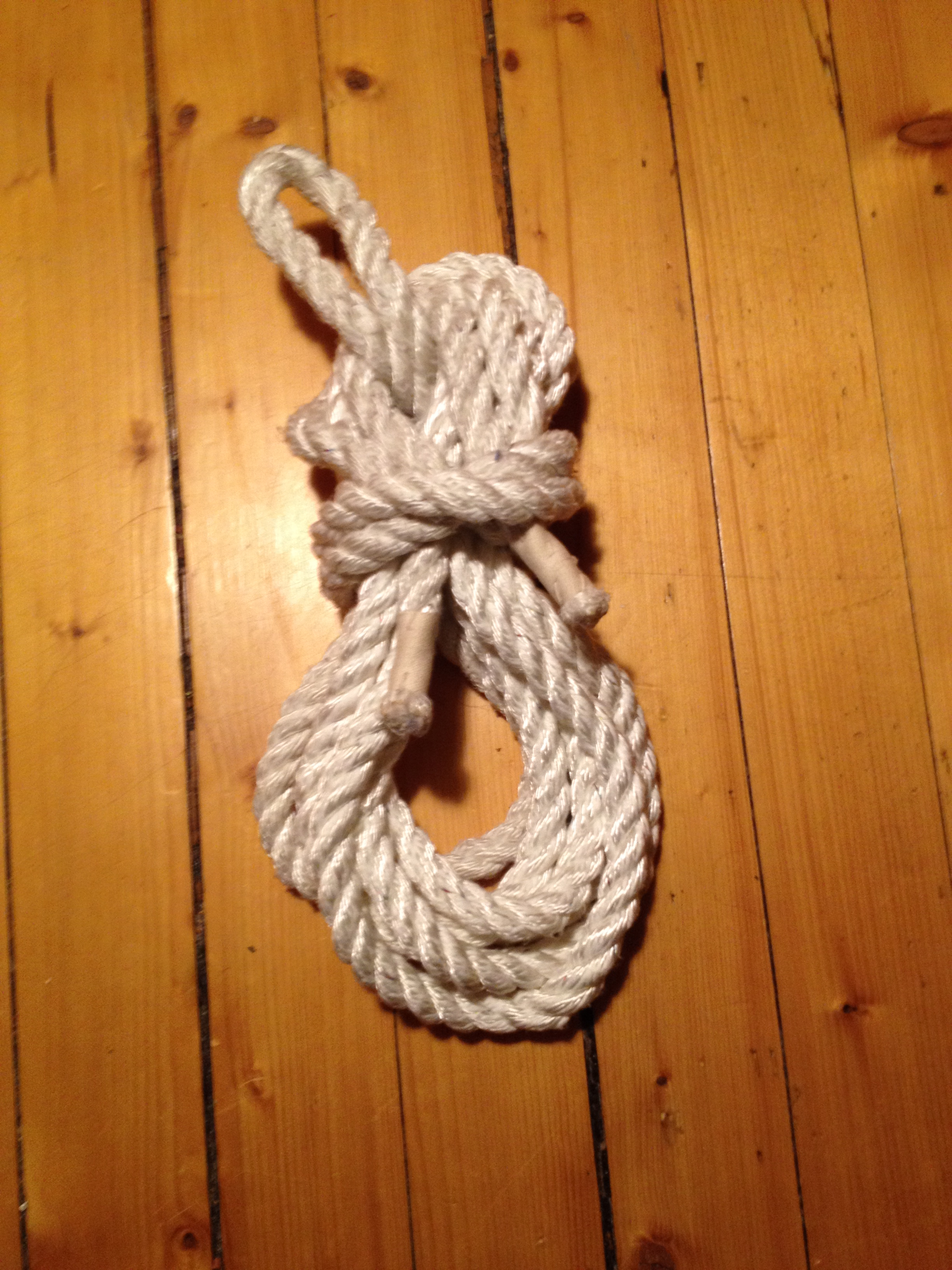 Bundling a rope to hang for transport or storage, final stage